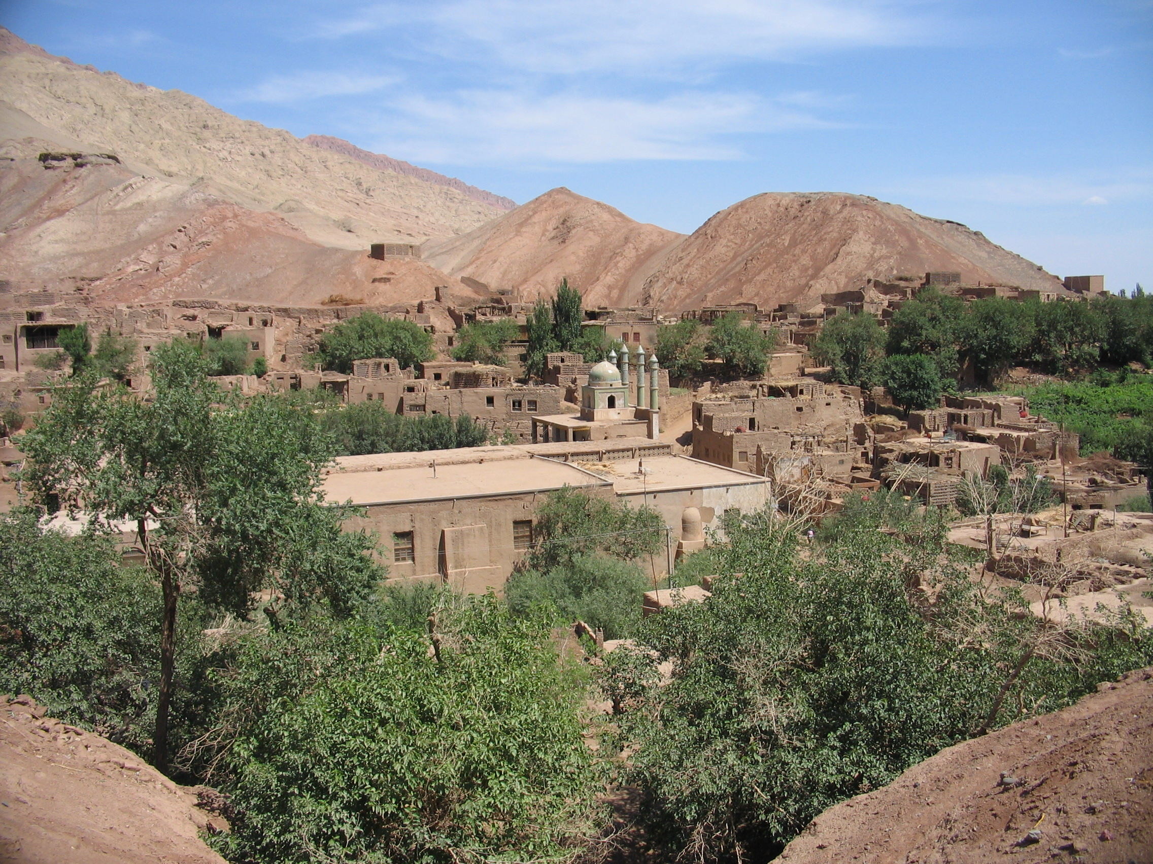 The small oasis town of Tuyoq, about 25 miles from Turfan, Xinjiang, PRC.